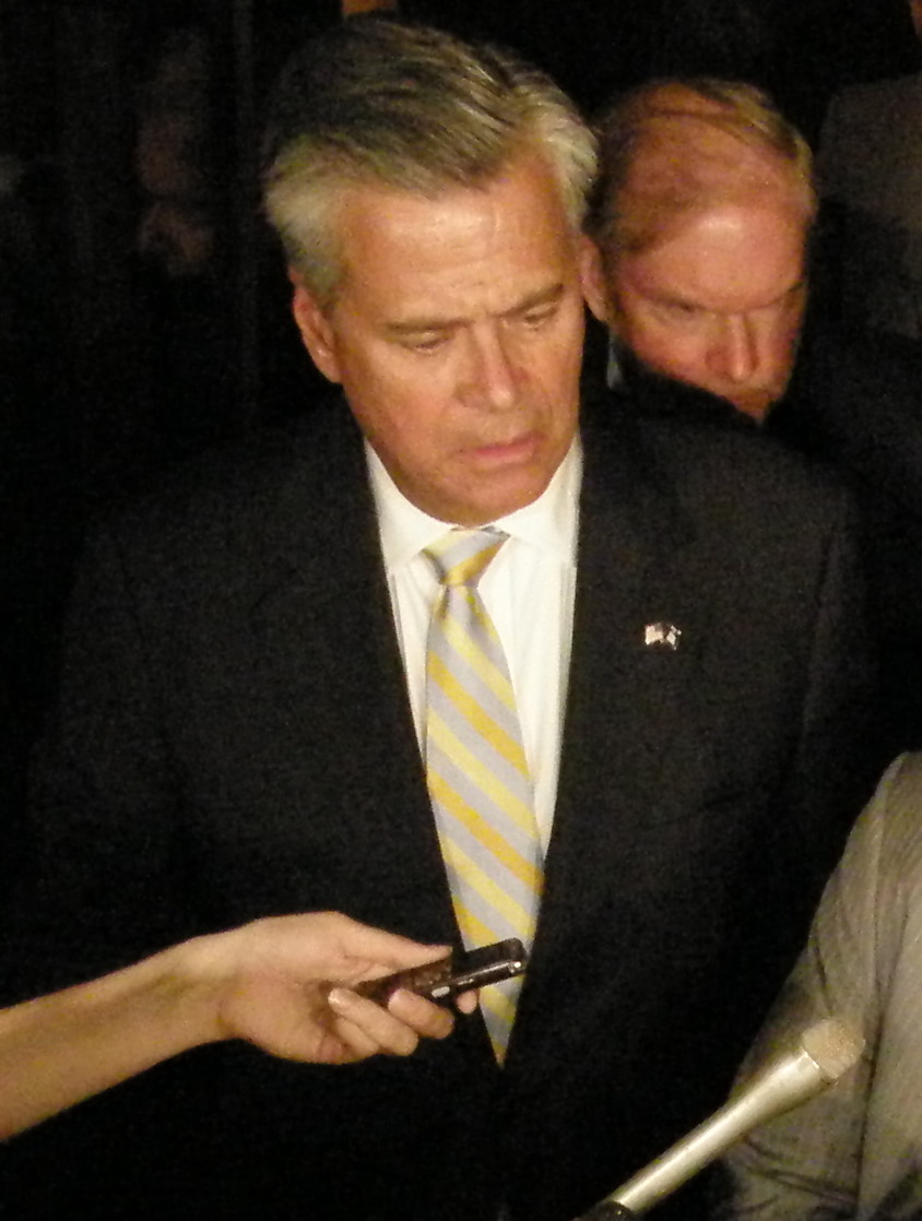 Dean Skelos